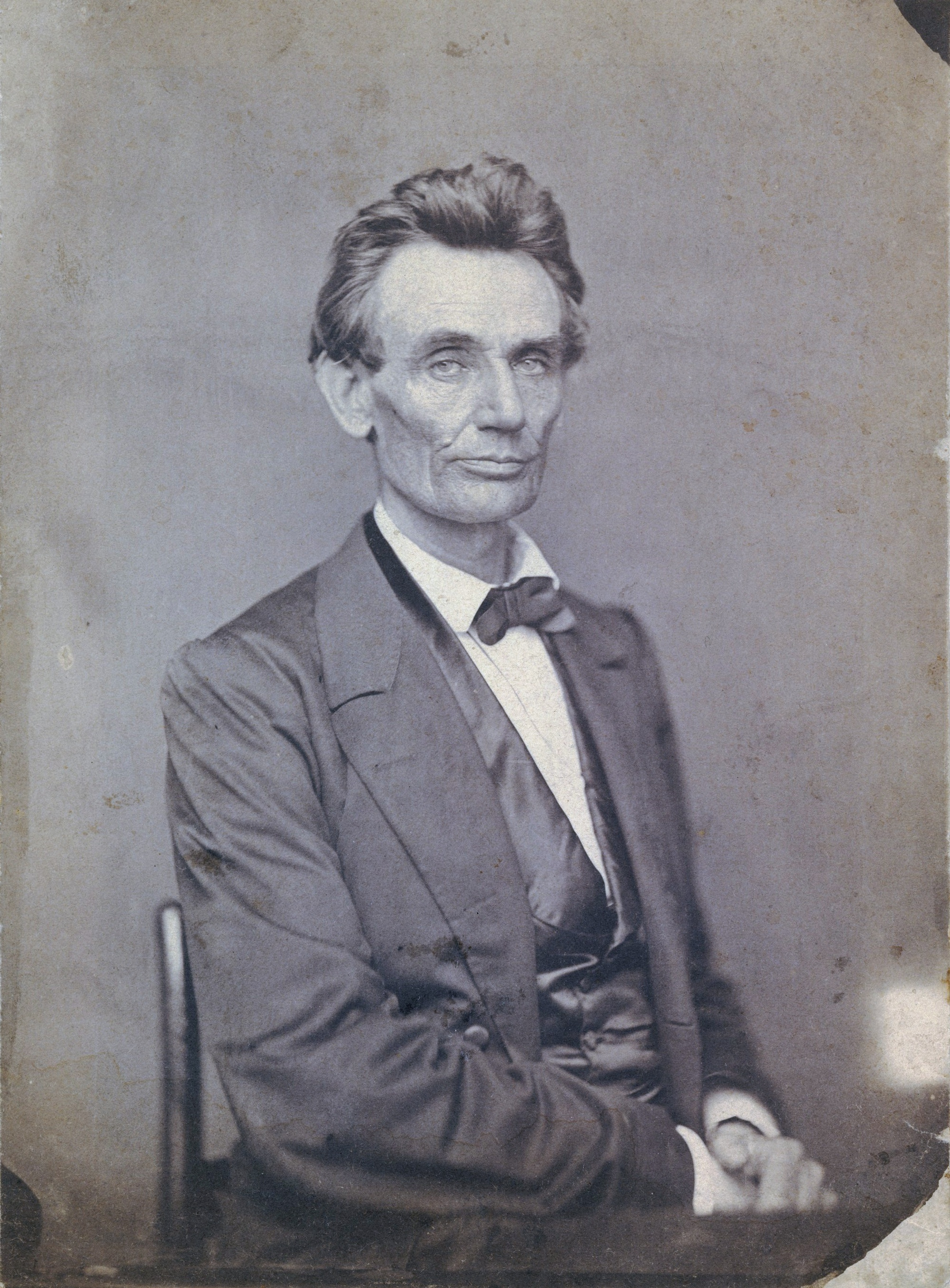 From Metropolitan Museum of Art: This photograph, made in Springfield, Illinois, on May 20, 1860, was the first portrait taken of Abraham Lincoln after he had received the nomination for president at the Republican National Convention in Chicago. It is one of five photographs taken by William Marsh for Marcus L. Ward, a delegate from Newark, New Jersey. Although many in the East had read Lincoln's impassioned speeches, few had actually seen the senator from Illinois. At fifty-one years old, Lincoln appears much younger in this photograph, innocent as yet of the great toll the presidency would take on him. His face is an odd contra diction of parts: his right eye typically wanders, his large right ear flaps behind a high cheekbone and sunken cheek, and his hair, described by Sir William Howard Russell as a "thatch of wild Republican hair," is loosely combed. He did not grow his characteristic beard until October 1860. The first president of the United States to wear a beard, Lincoln appears cleanshaven in only one-third of the more than one hundred known photographs. Yet Lincoln is ruggedly handsome. Marsh presents the face of the prairie lawyer from the backwoods of Kentucky, the man who would declare, in support of the Union, "A house divided against itself cannot stand"; the man who only two years after this photograph was made would deliver the Emancipation Proclamation, and who, in his second inaugural address in 1865, spoke of reconstructing a vital, new country from the ashes of the South, "With malice toward none; with charity for all." This is a retouched picture, which means that it has been digitally altered from its original version. Modifications: cropped border, removed some artifacts, adjusted contrast. Modifications made by Scewing. The original can be found here.